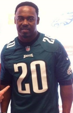 Former Free Safety of the Philadelphia Eagles and Denver Broncos, Brian Dawkins